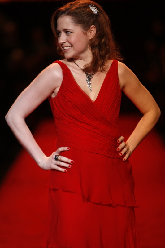 Jenna Fischer modeling at The Heart Truth Fashion Show 2008